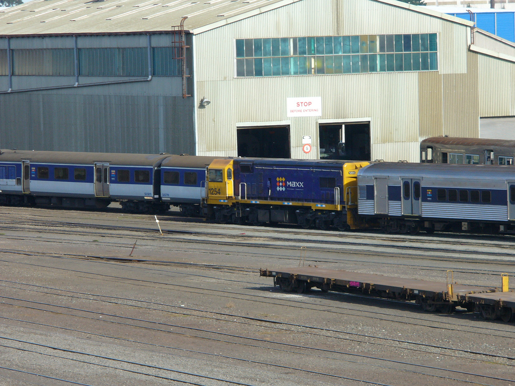 NZR DB class - NZR Locomotive DBR 1254 in MAXX Livery at Westfield, Auckland, New Zealand on 28 June 2006.